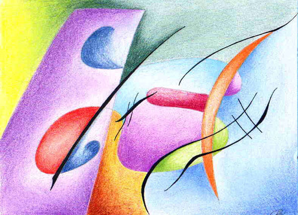 316 by Vassily Kandinsky